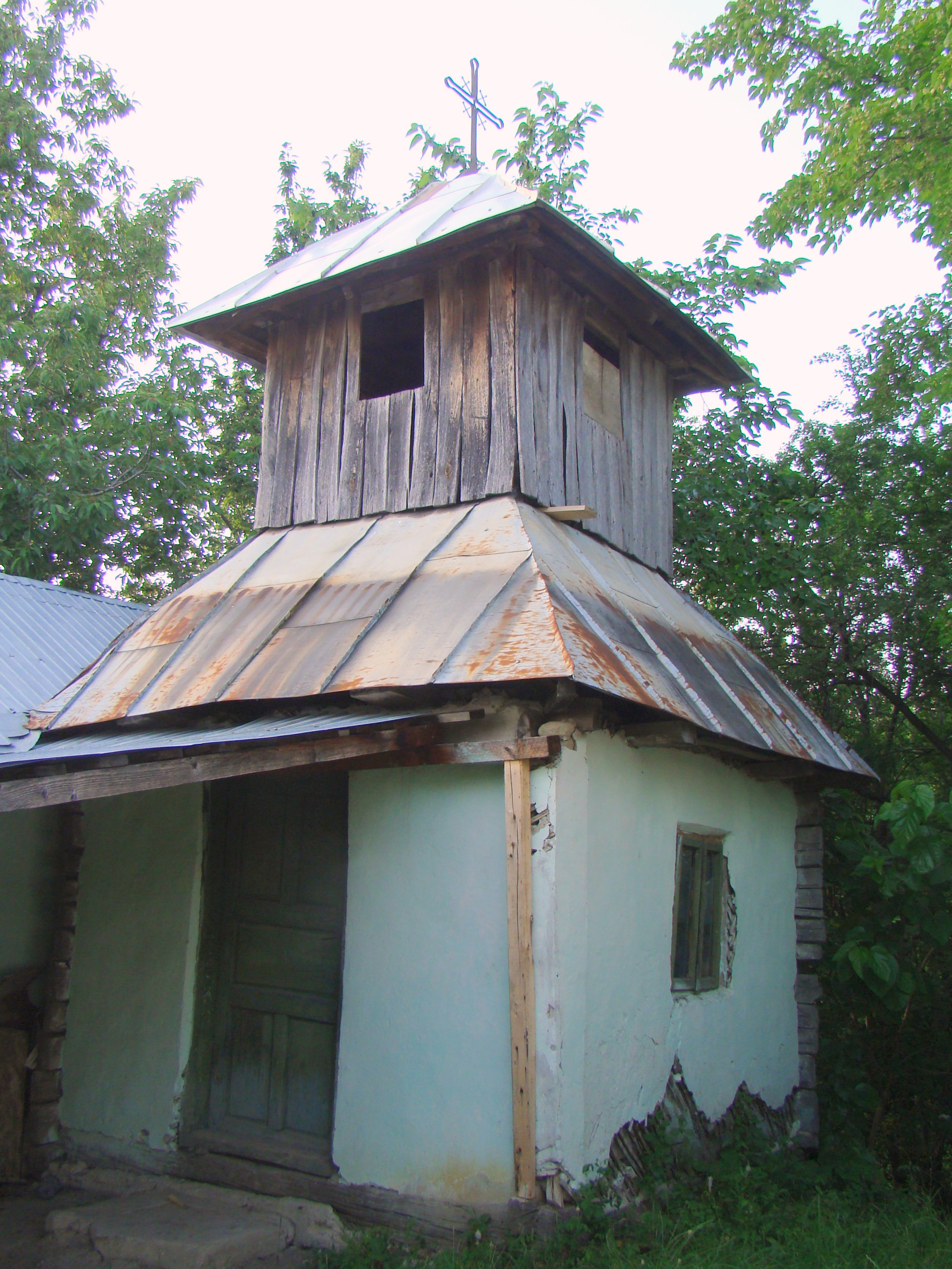 Wooden church in Seciurile, Gorj county, Romania